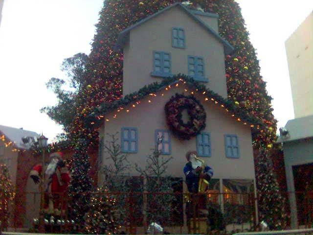 Santa's Town at Hong Kong Winter Festival 2005.